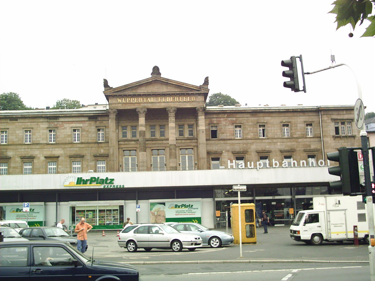 Wuppertal main station, Wuppertal, Germany check usage